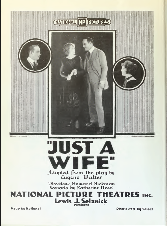 Just a Wife, a film directed by Howard Hickman